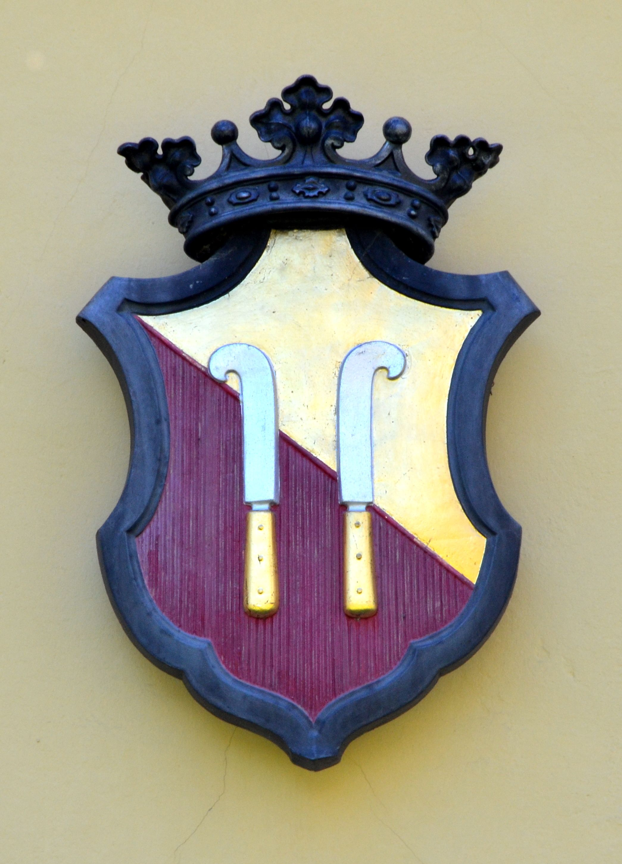 Relief of coat of arms at the castle in Dietrichstein #1, municipality Feldkirchen in Kärnten, district Feldkirchen, Carinthia, Austria, EU